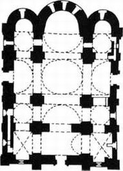 A plan of the St. Cyril's Church in Kiev, Ukraine.